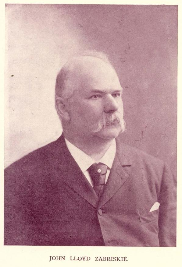 John Lloyd Zabriskie